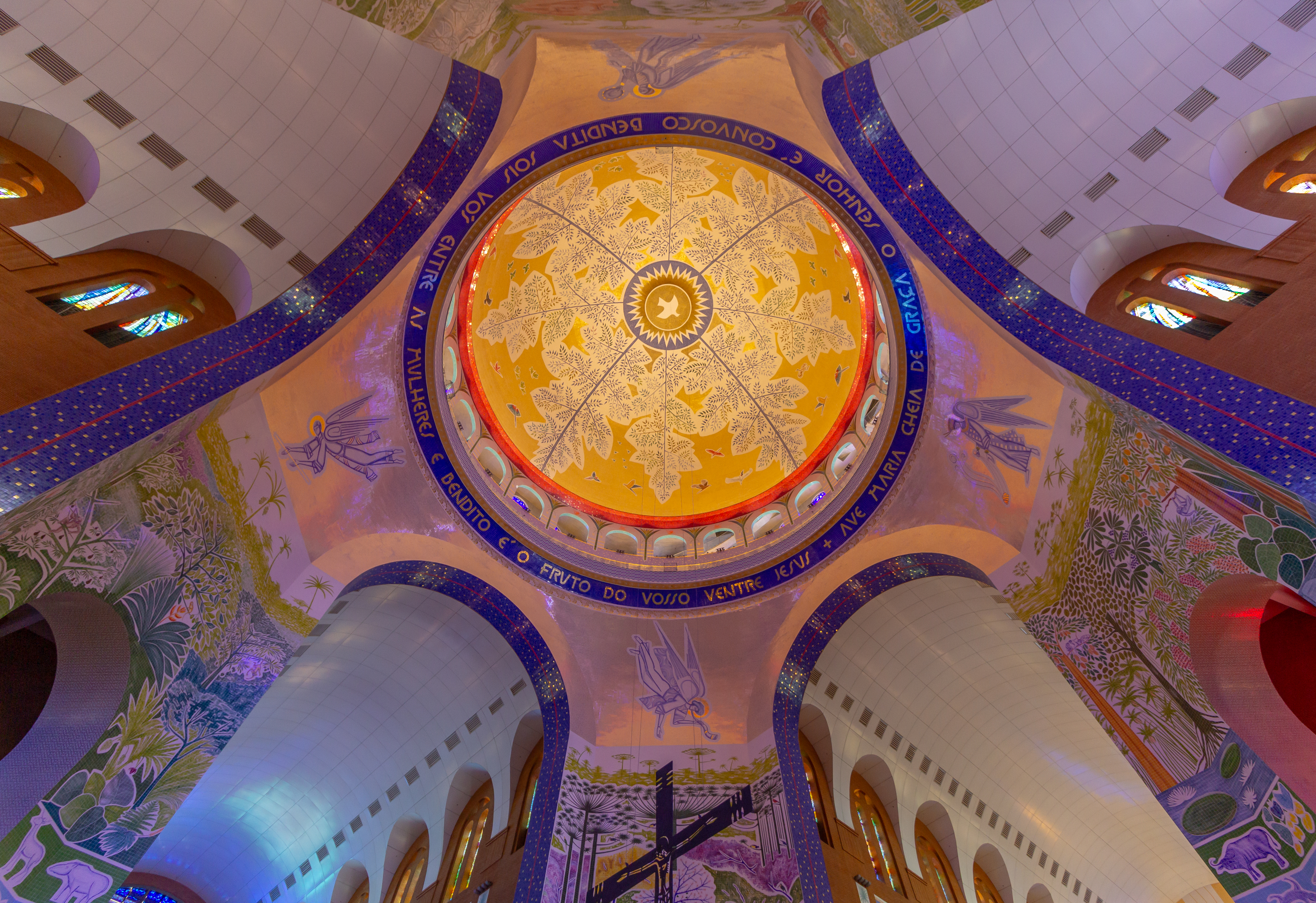 Basilica of the National Shrine of Our Lady of Aparecida, Sao Paulo, Brazil